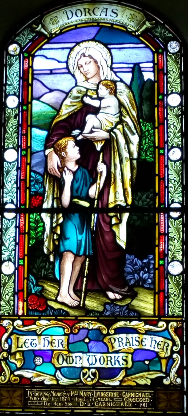 At Moluags Cathedral 2017 in side